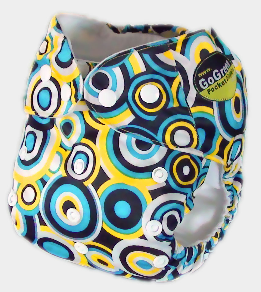 Cloth Diaper